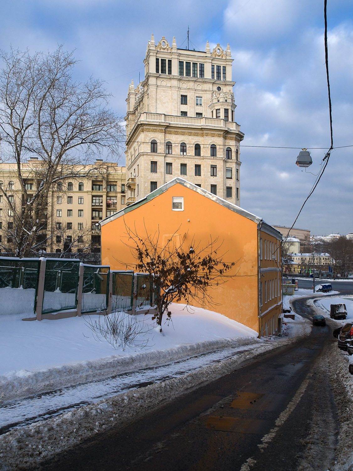 Bolshoy Vatin Lane, Moscow